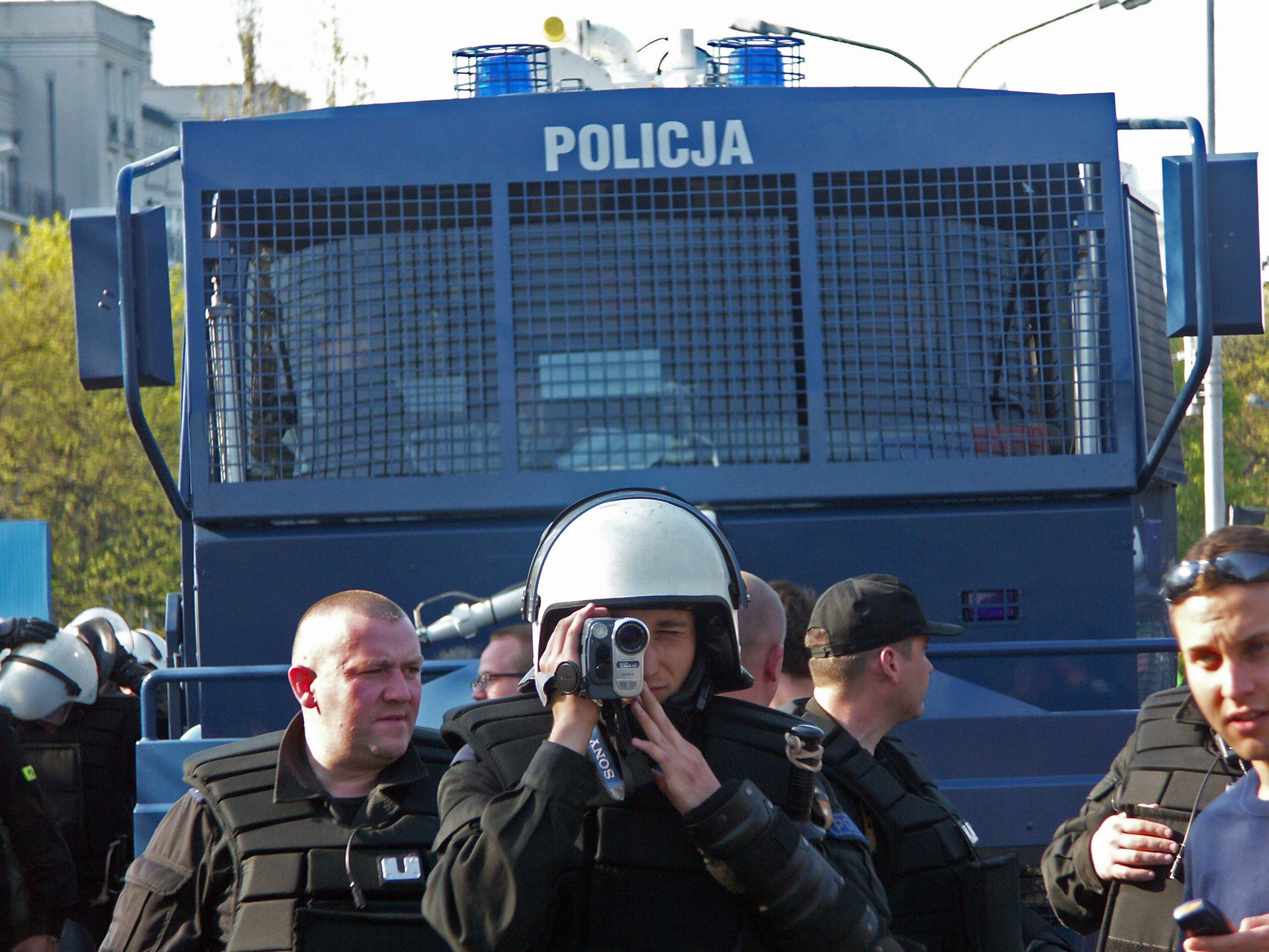 Tajfun water cannon on Renault Kerax chassis (Polish Police).